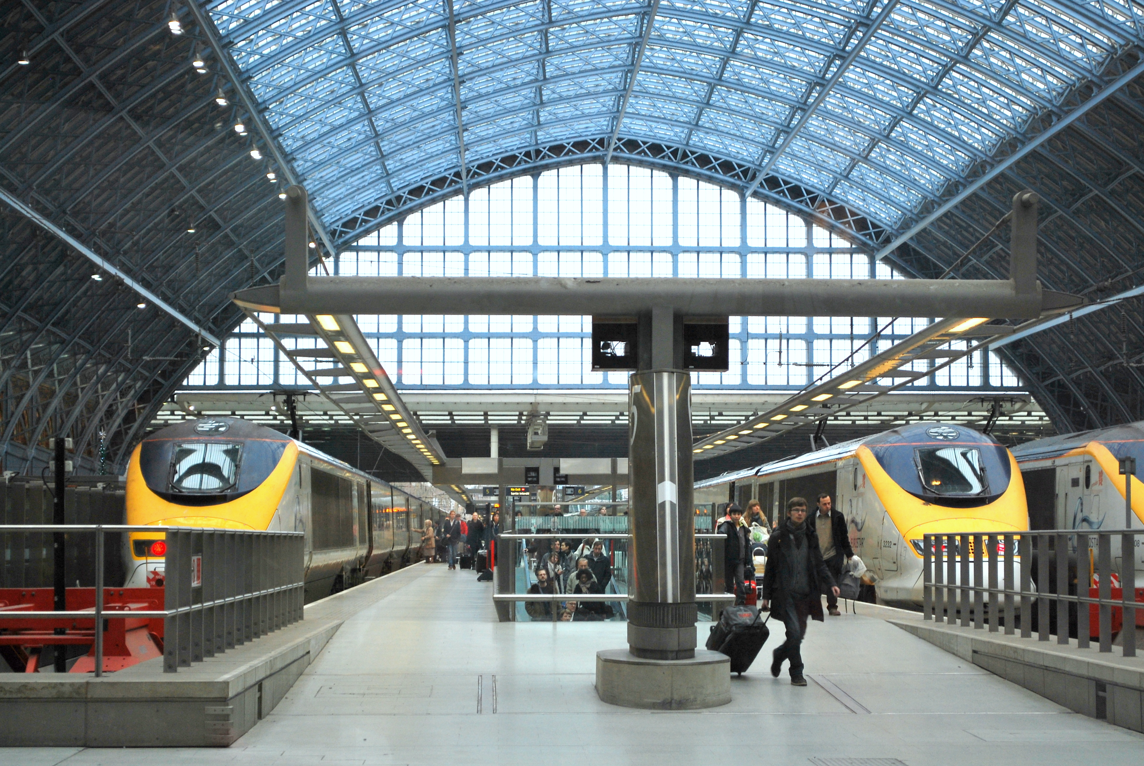 I took this photo with my own camera and have the complete rights to it.